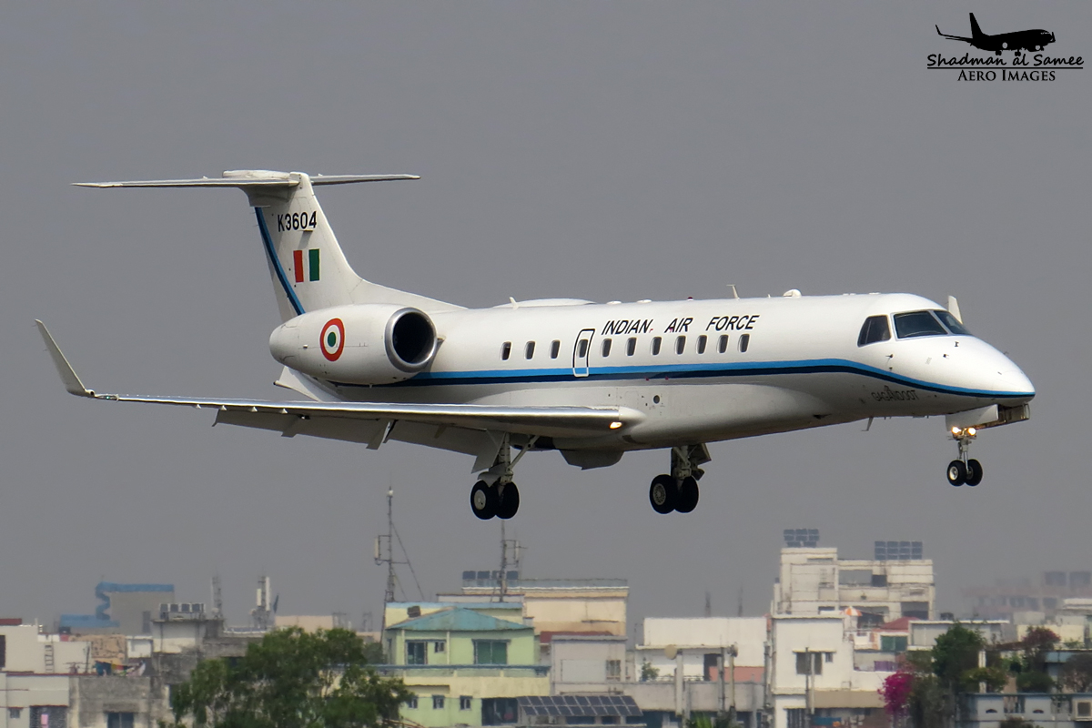 IAF Chief's aircraft for the flight back home. VGHS 25-02-16